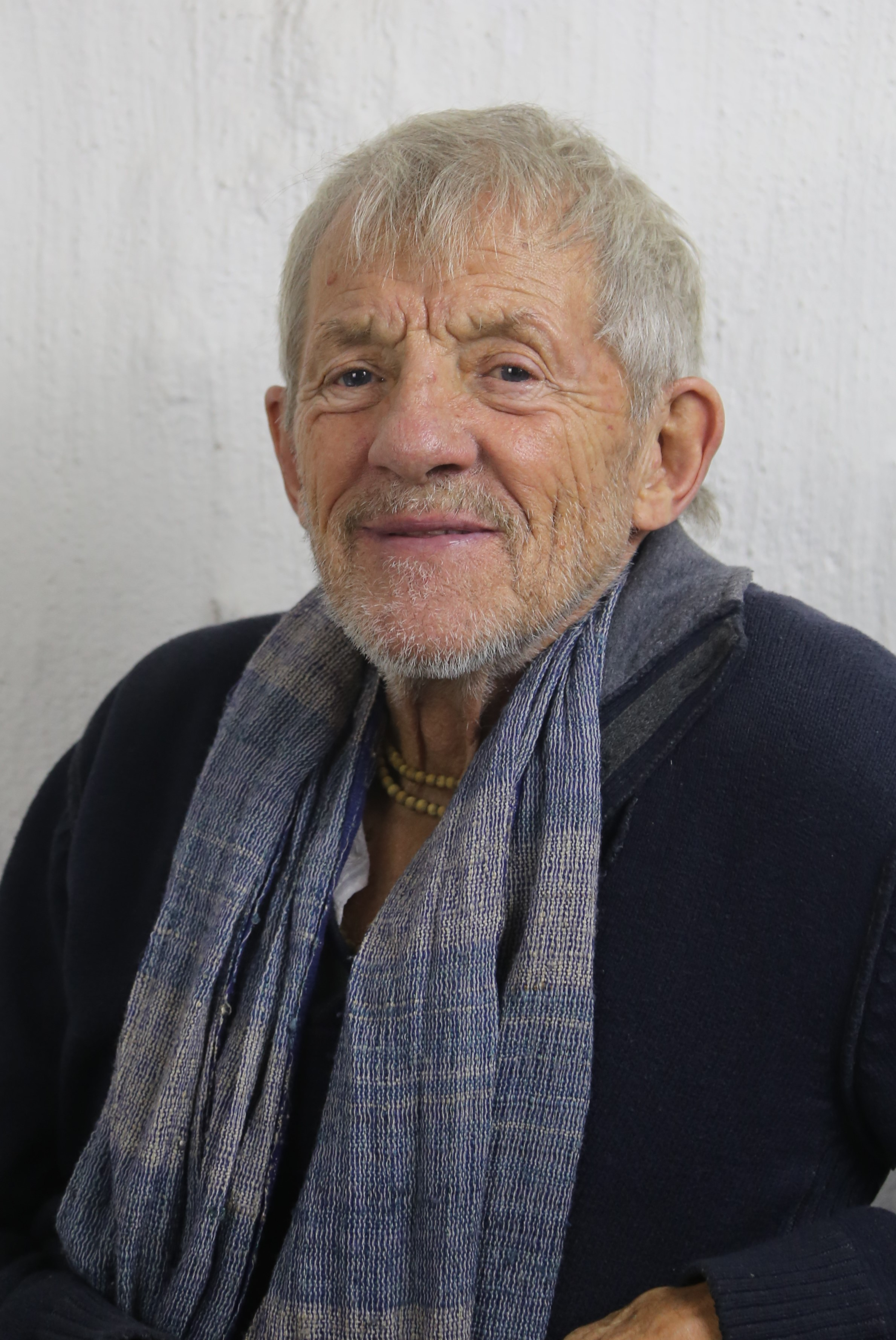 Torbjörn Fjellström, author of the books Addiktologi and Kärlekens dysberoende